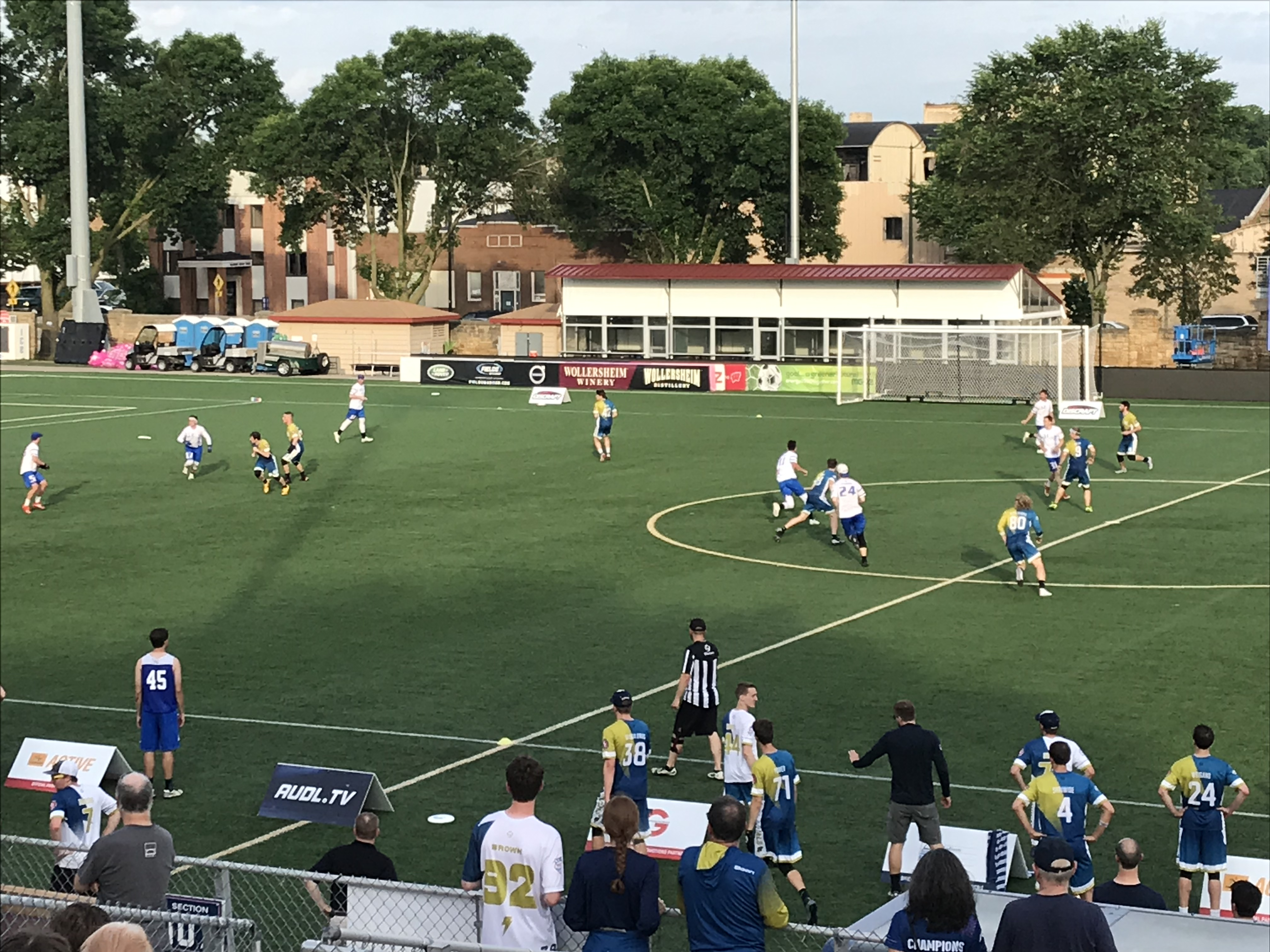 The Madison Radicals and Chicago Wildfire compete in an American Ultimate Disc League game at Breese Stevens Field on June 28, 2019